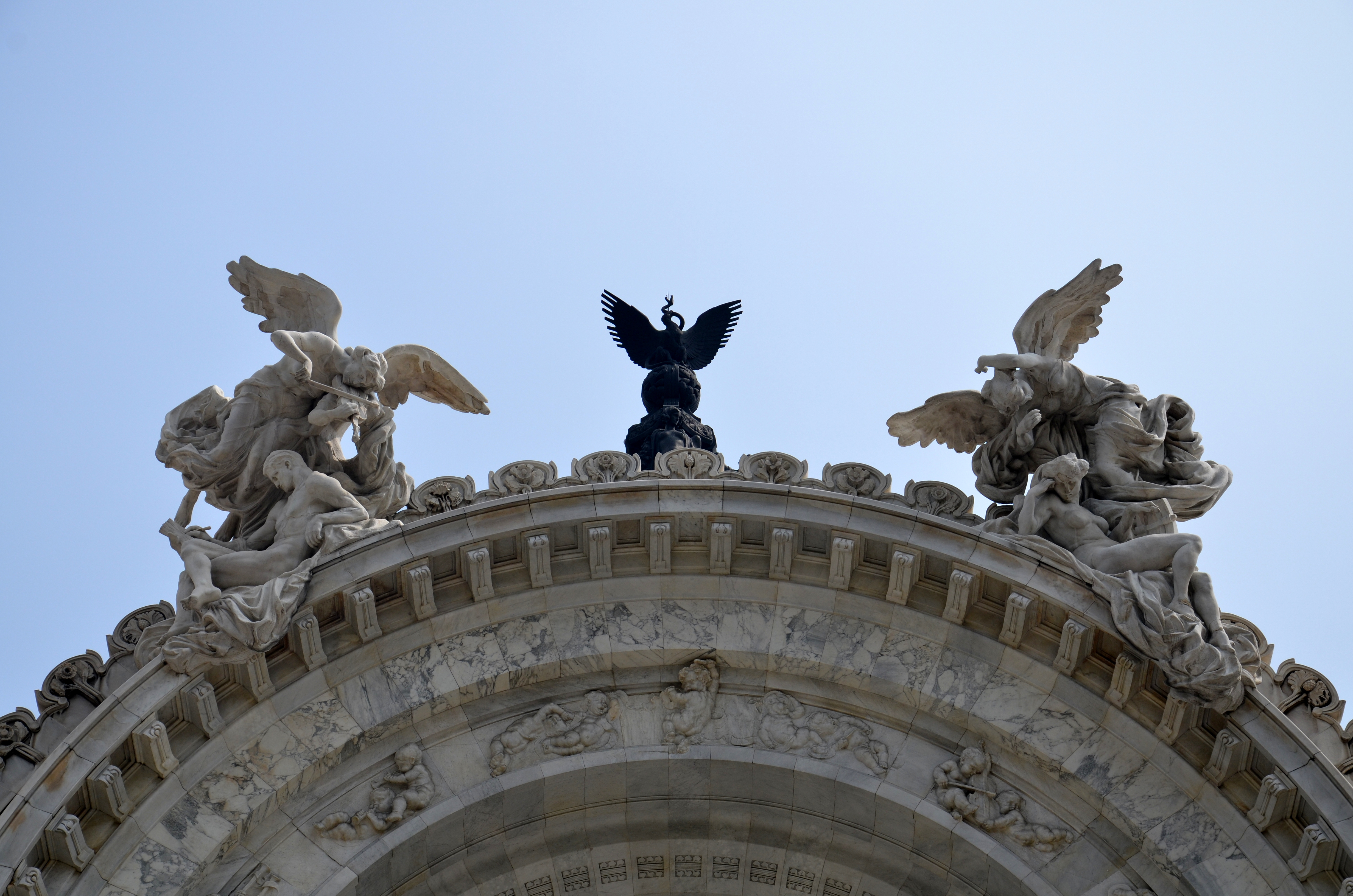 Detail of sculpture in the tympanum of the facade of the Palace of Fine Arts, Mexico. "The Music", left, and "The Inspiration", right by the sculptor Leonardo Bistolfi